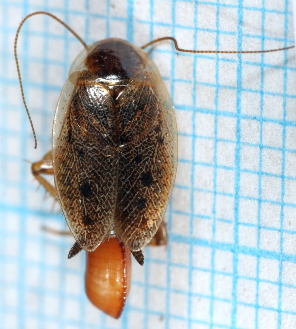 Female Ectobius lapponicus carrying her eggs.Template:Byline